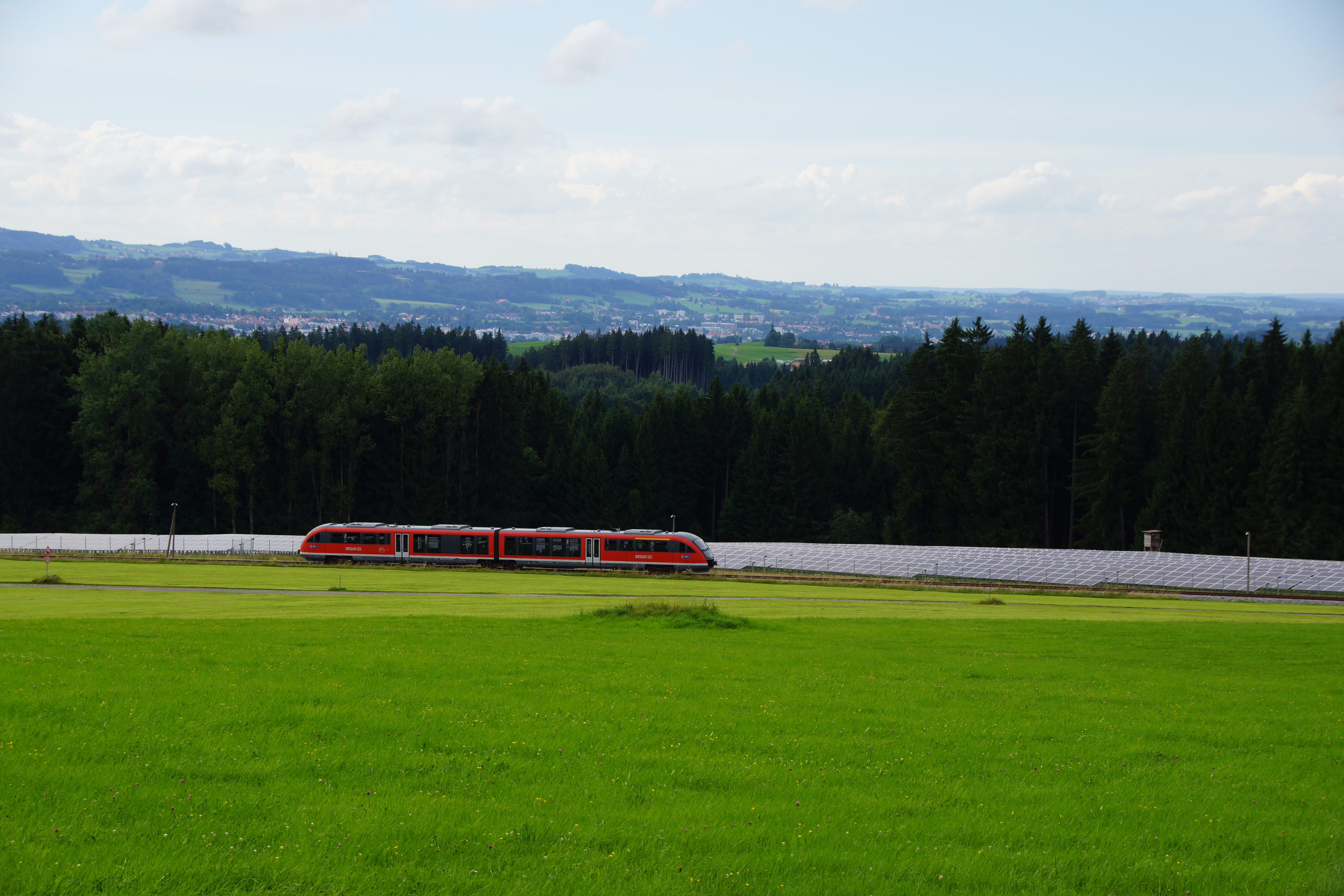 Solarpark Schlechtenberg near Sulzberg, southern Bavaria, Germany.